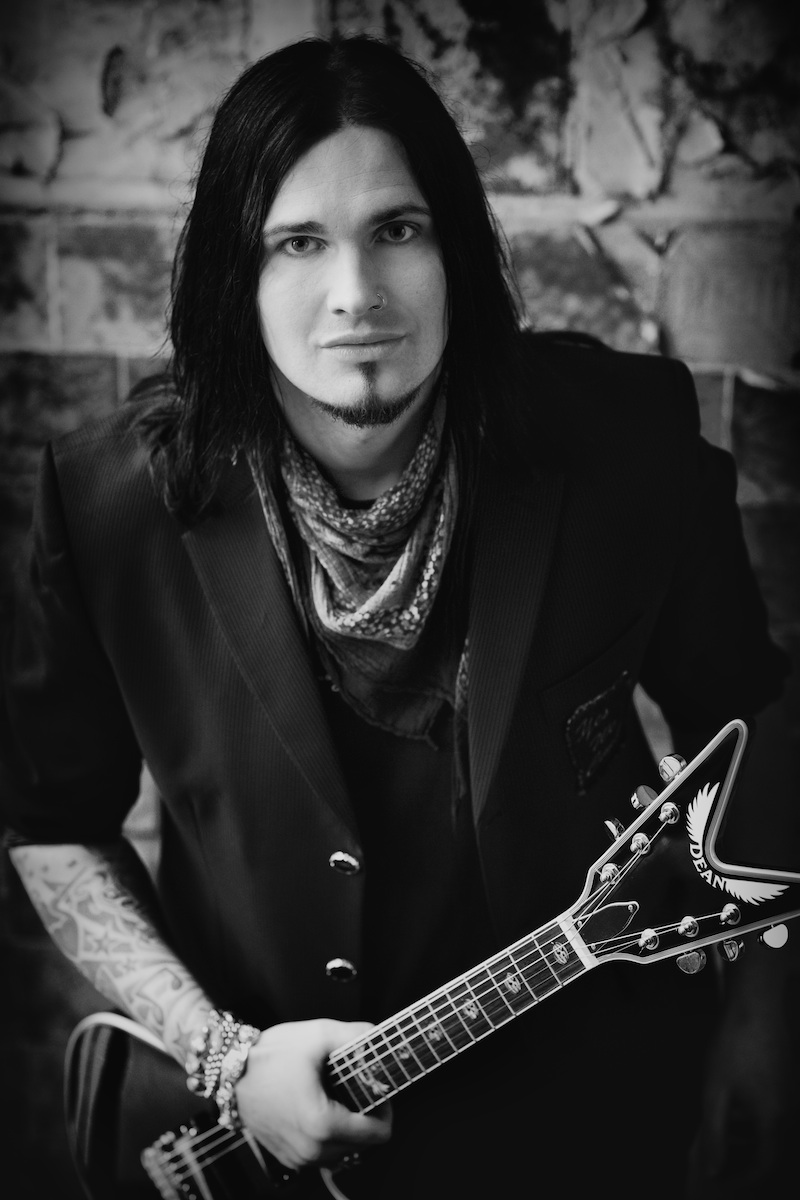 Sascha Gerstner, German musician